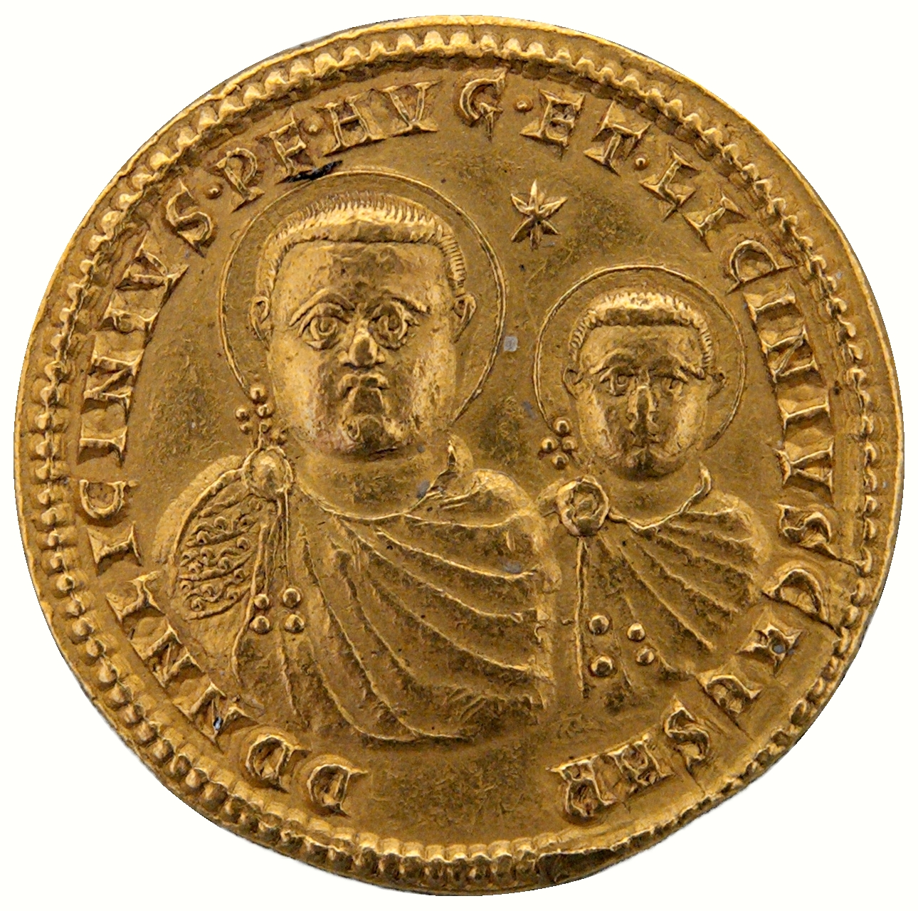 Facing busts of Licinius, father and son. 4-aureus multiple, minted at Nicomedia.